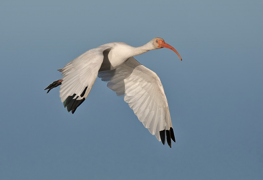 An adult American White Ibis flying at Huntington Beach State Park, South Carolina, USA.